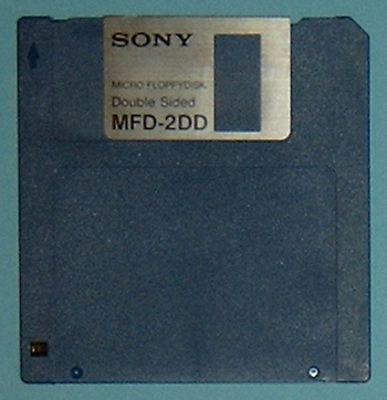 3,5" 2S-DD floppy disk